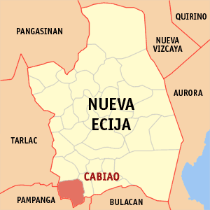 Map of Nueva Ecija showing the location of Cabiao